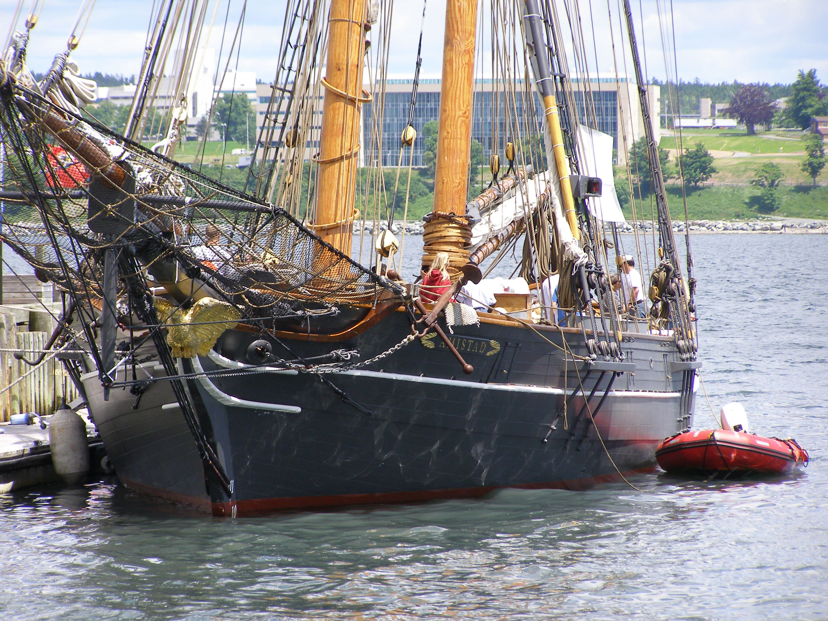 the "Amistad" (Halifax NS, July 3 2007)